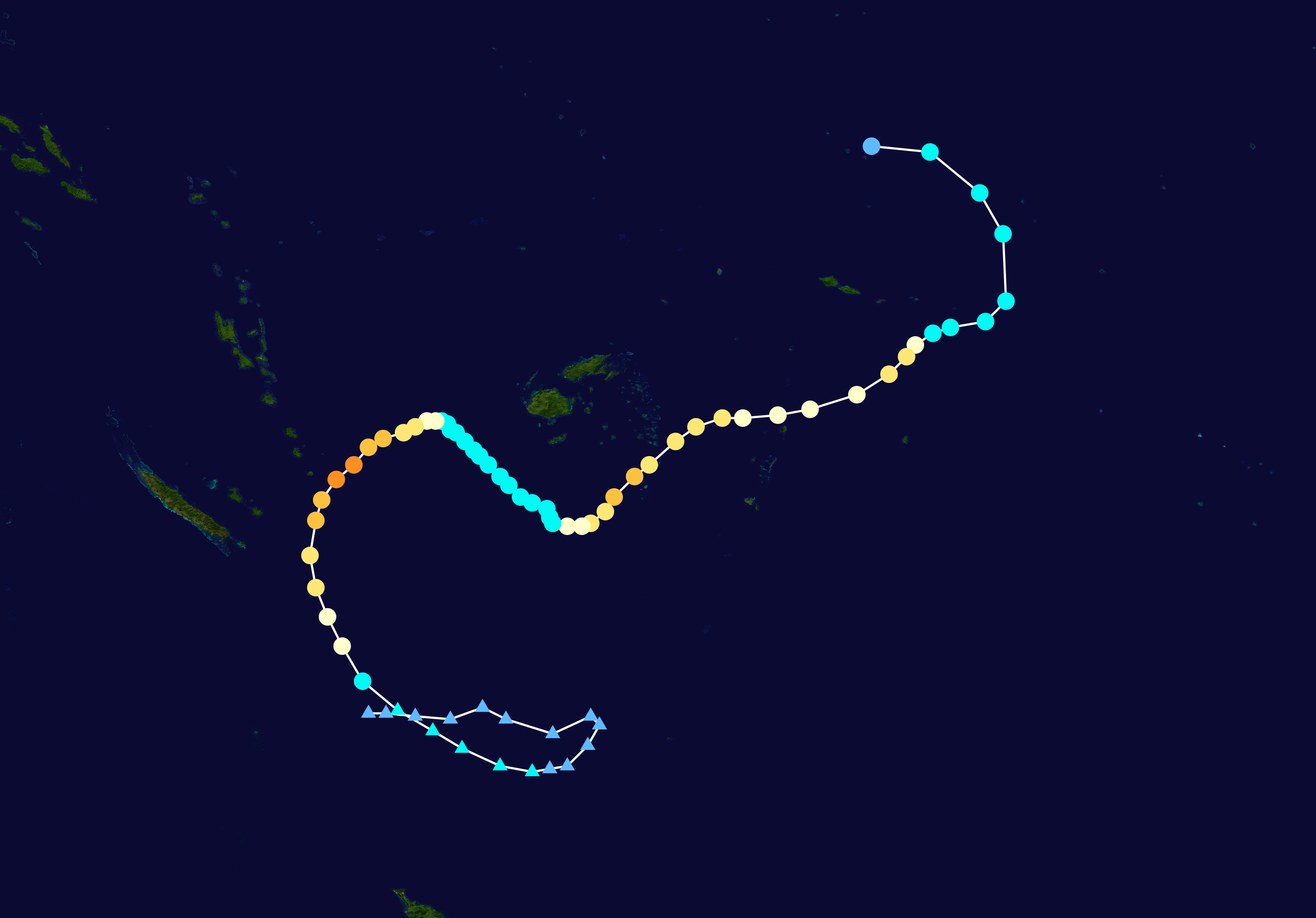 Track map of Severe Tropical Cyclone Ula of the 2015-16 South Pacific cyclone season. The points show the location of the storm at 6-hour intervals. The colour represents the storm's maximum sustained wind speeds as classified in the Saffir–Simpson scale (see below), and the shape of the data points represent the nature of the storm, according to the legend below. Saffir–Simpson scale Tropical depression≤38 mph≤62 km/h Category 3111–129 mph178–208 km/h Tropical storm39–73 mph63–118 km/h Category 4130–156 mph209–251 km/h Category 174–95 mph119–153 km/h Category 5≥157 mph≥252 km/h Category 296–110 mph154–177 km/h Unknown Storm type Tropical cyclone Subtropical cyclone Extratropical cyclone / Remnant low / Tropical disturbance / Monsoon depression